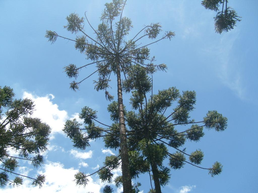 Araucaria angustifolia located in the region Pinhais. This tree has become a symbol of the city of Pinhais and the state of Paraná.